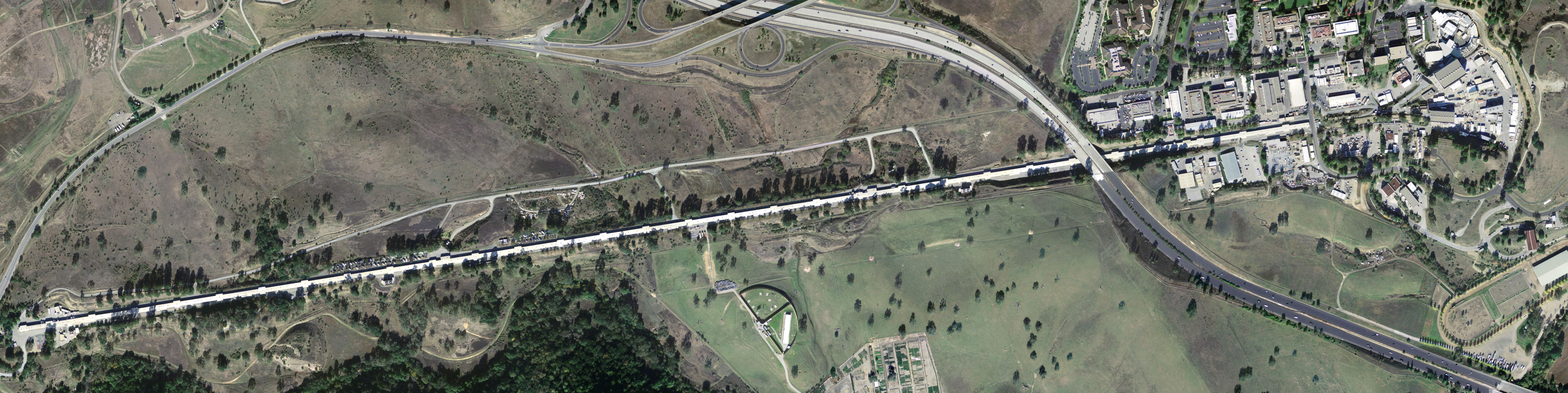 Stanford Linear Accelerator, shown in an aerial digital orthoimage. The two roads seen near the accelerator are California Interstate 280 (to the East) and Sand Hill Road (along the Northwest).